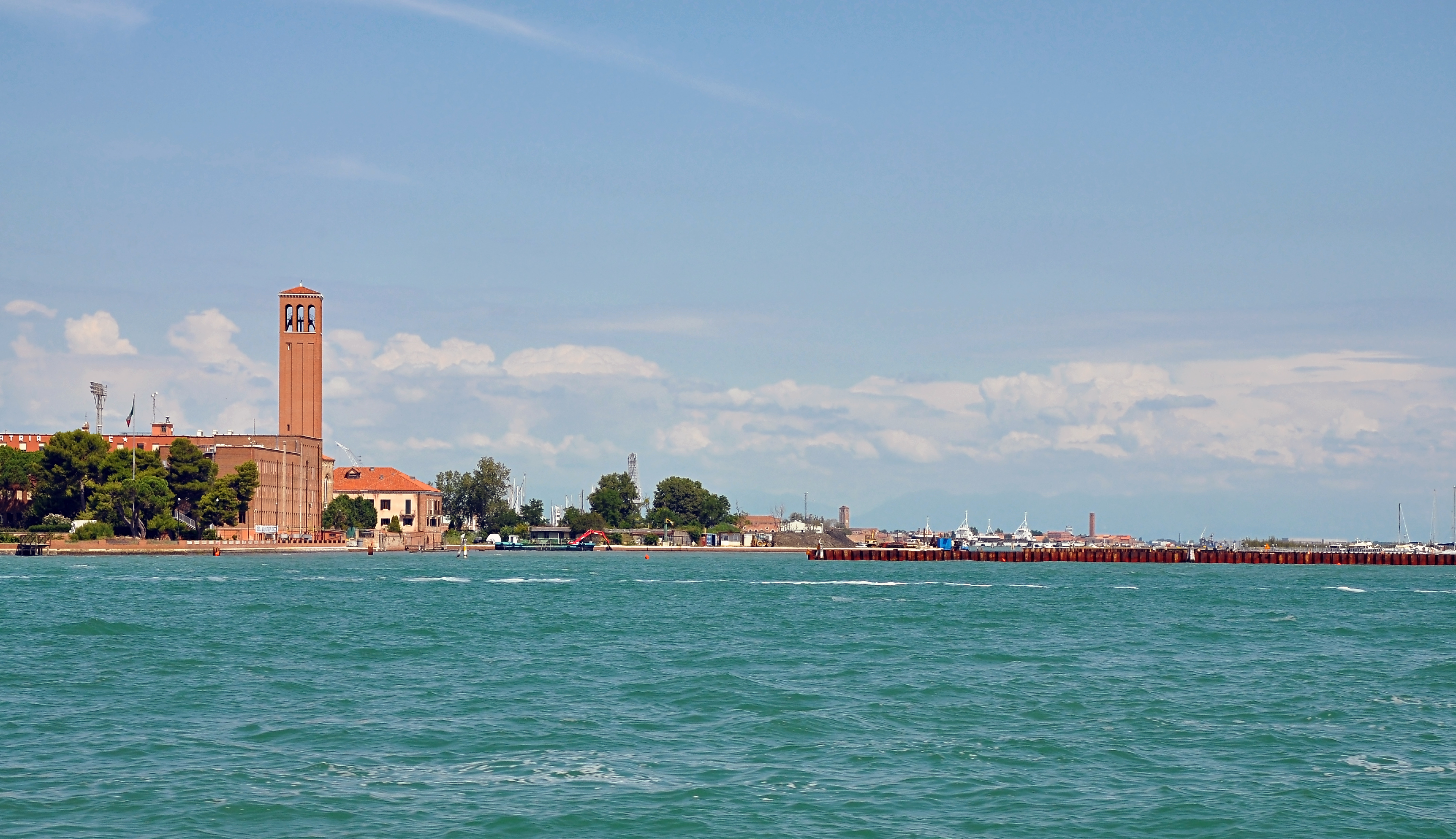 Sant'Elena island of Venice in Italy with the Campanile of Sant'Elena church, originally built in the 12th century and rebuilt in the 15th.